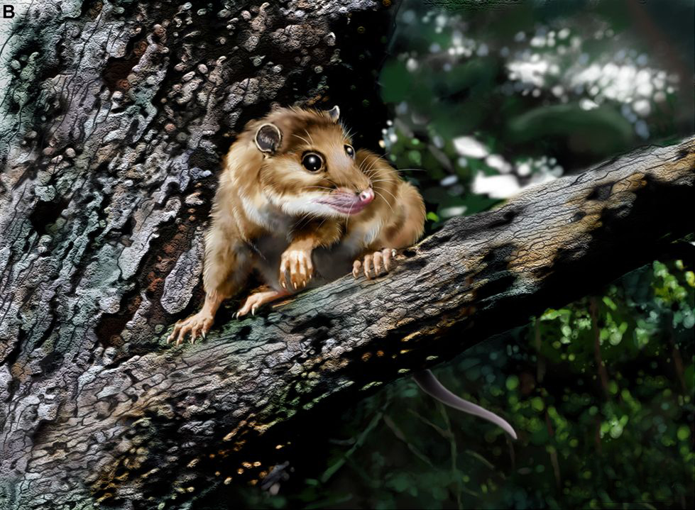 Life restoration of Mimoperadectes.